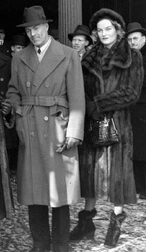 James H.R. Cromwell and Doris Cromwell